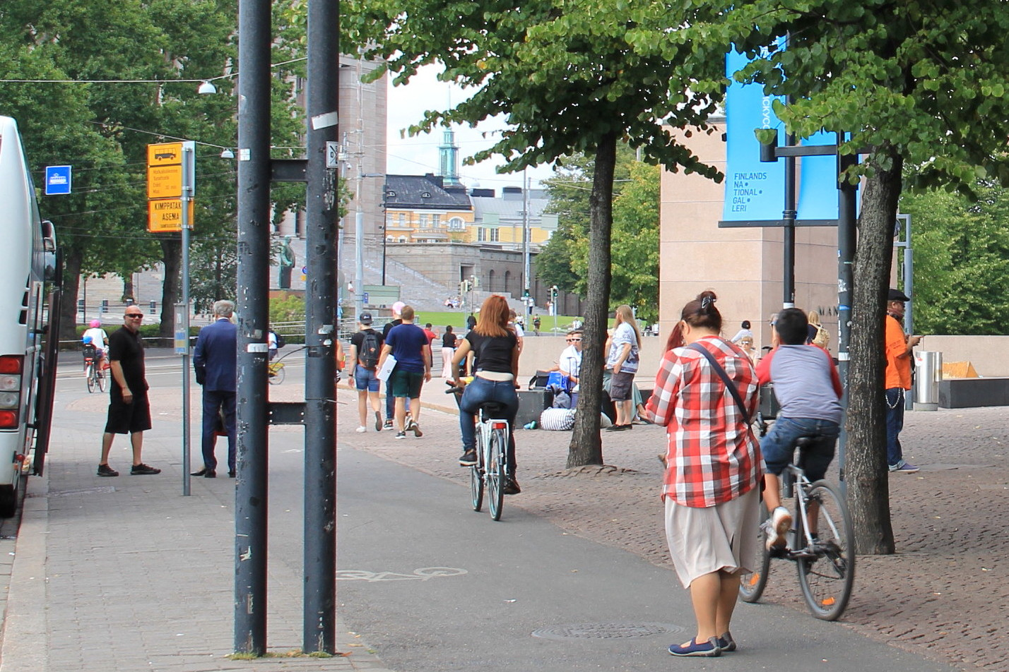 Epigrams for Helsinki citizens, part 1, Mannerheimintie, Helsinki, Finland. - Woman looking at manhole cover in bicycle path. Cover is artwork designed by Denise Ziegler, unveiled in 1999.